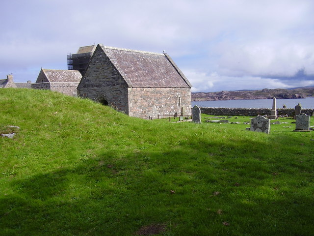 Chapel and mound - the burial place of Kings on Iona Many Scots, Irish and Norwegian Kings are buried here.